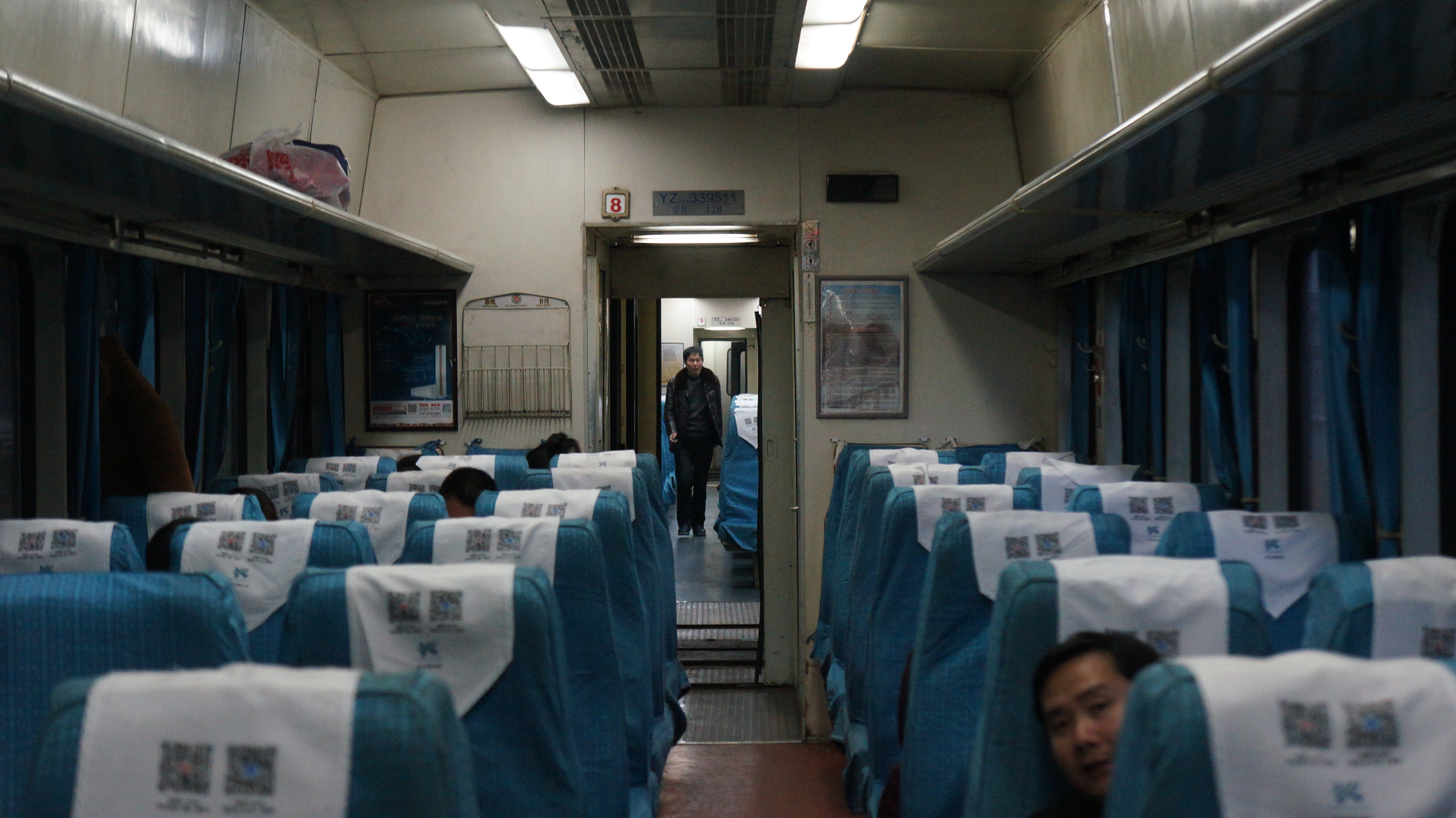 201603 Interior of YZ25A